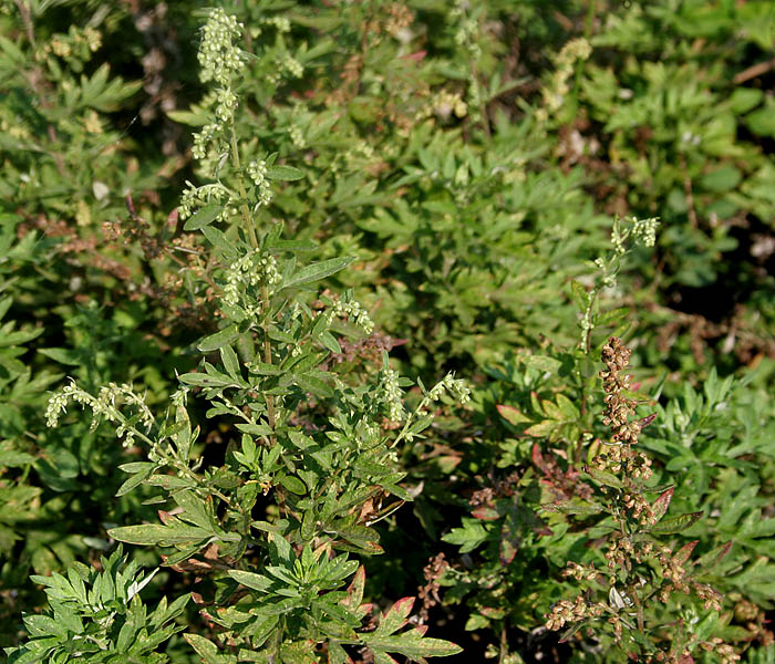 Artemisia nilagirica (syn. A. vulgaris, A. vulgaris var. nilagirica)- Indian Wormwood, Fleabane, Mugwort • Hindi: नागदोना Nagdona, दवना Davana • Manipuri: লেইবাক ঙৌ Leibakngou • Marathi: ढोरदवना Dhordavana, Gondhomaro • Tamil: மக்கீபூ Makkippu • Malayalam: മക്കീപൂവൂ Makkippuvu, മാസീപത്രീ Masipatri • Telugu: Masipatri • Kannada: Manjepatre, Urigattige • Bengali: নাগদানা Nagadana • Oriya: Dayona • Konkani: Surpin • Assamese: নীলম Nilum • Sanskrit: नागदमन Nagadaman, दमनक Damanak- in Herbal Garden, in Rangareddy district of Andhra Pradesh, India.